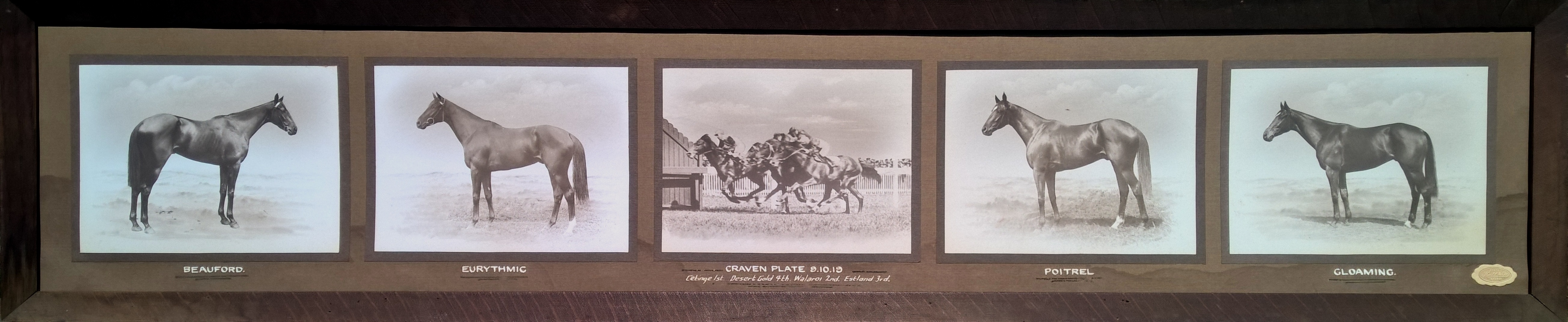 Randwick Racecourse Champions of the Past